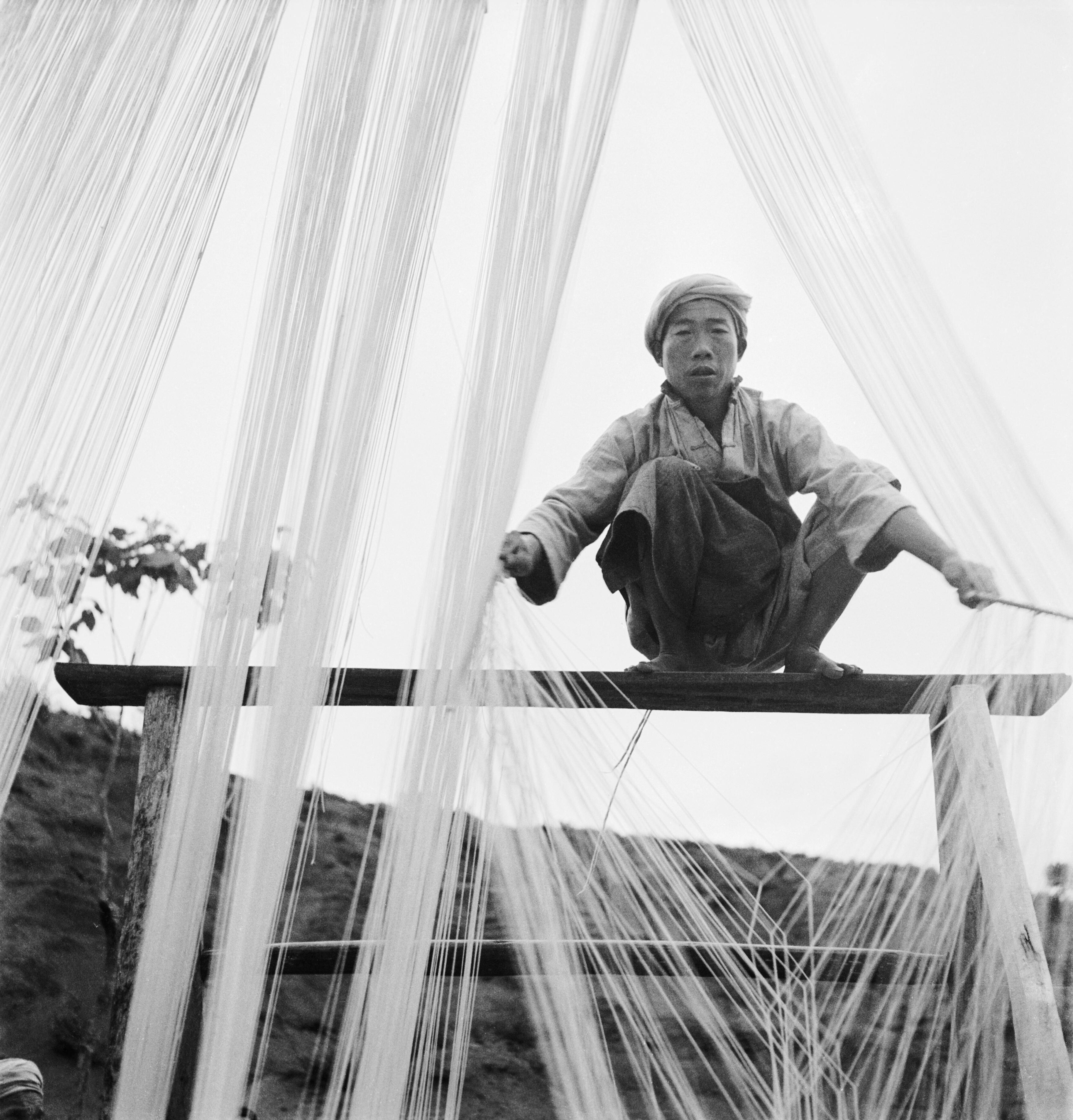 Cecil Beaton Photographs Making noodles by hand in the Sze-Chwan province of China. Lengths of noodles strectched out to dry in the sun.